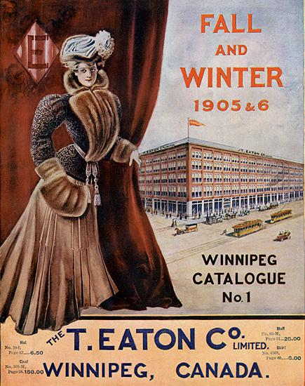 The cover of the Eaton's department store Fall and Winter 1905-6 catalogue. This issue of the catalogue commemorated the opening of the Eaton's store in Winnipeg.